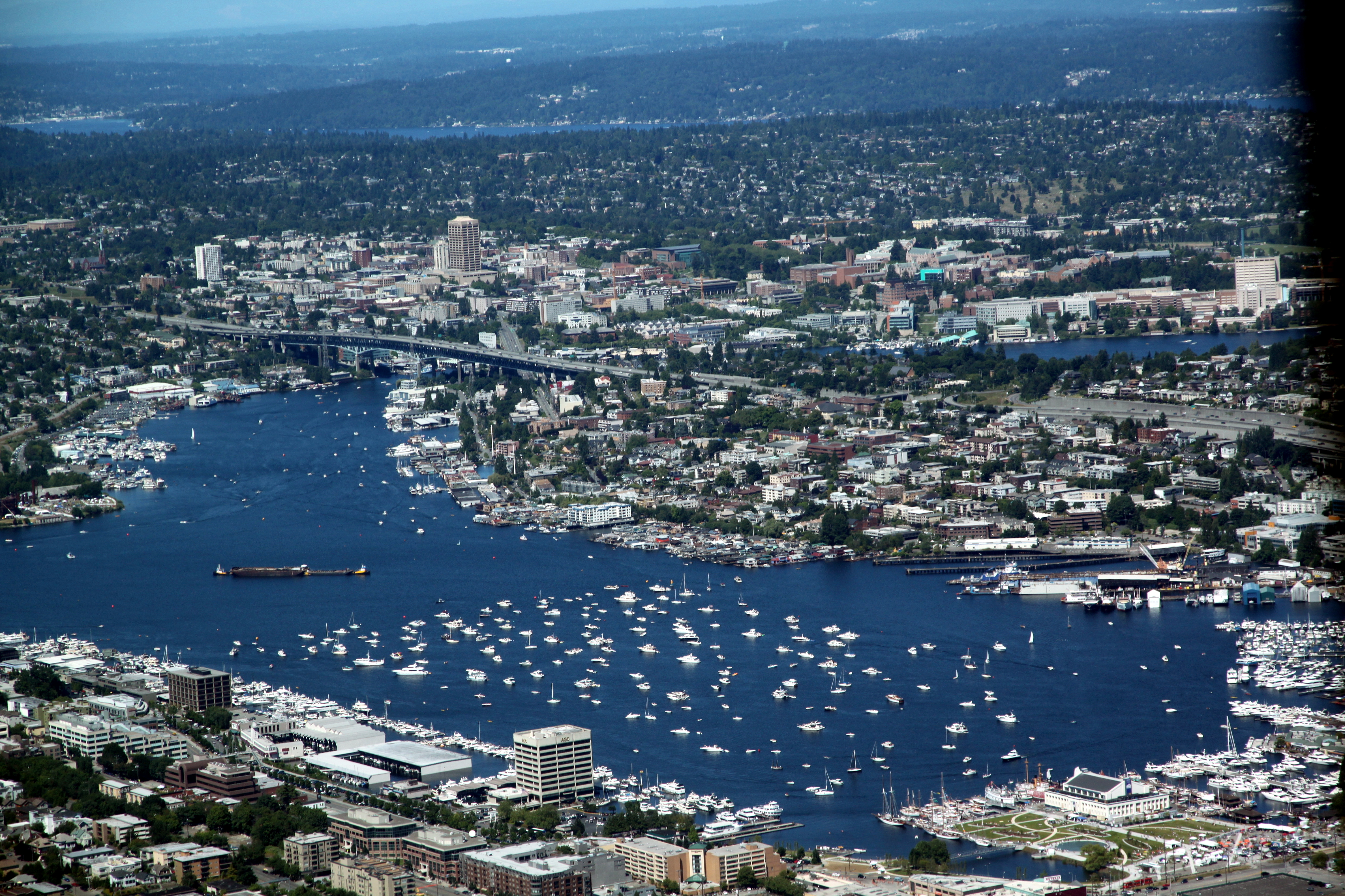 Boats gather on Seattle's Lake Union in preparation for the evening's July 4 fireworks show.